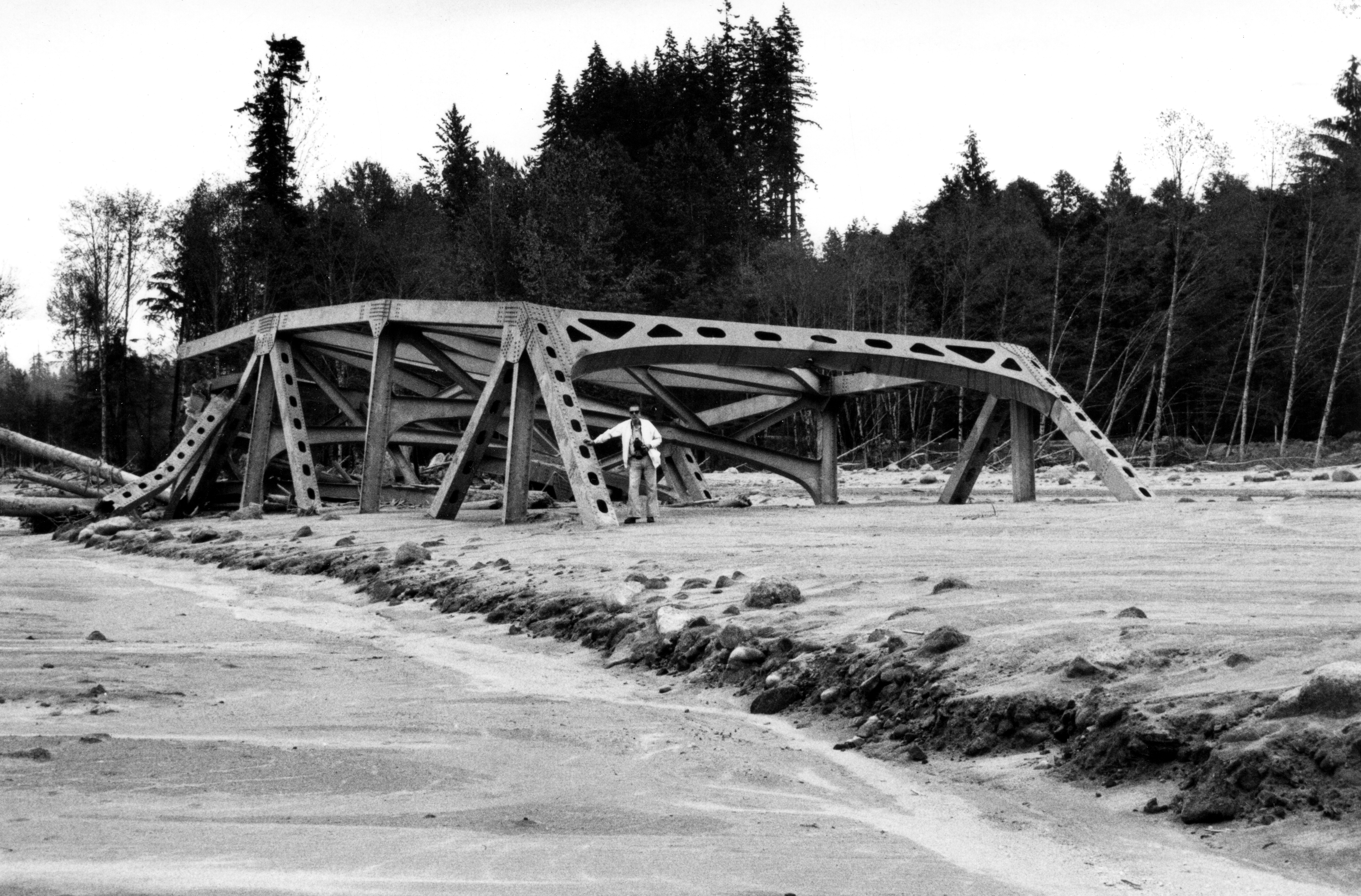 The 75-m (247-ft) St. Helens bridge on State Highway 504 after May 18 eruption of Mount St. Helens when it was washed out by the mudflow on the North Fork Toutle River. This steel structure was carried about half km (quarter mile) downstream and was partially buried by the mudflow. Man for scale by bridge girder.